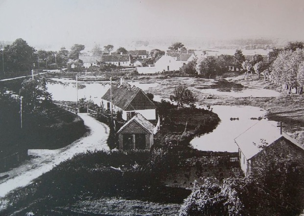 Blovstrød (Grøndholmen) as seen from the church tower in Blovstrød, Denmark. The village pond consisted of several smaller ponds.